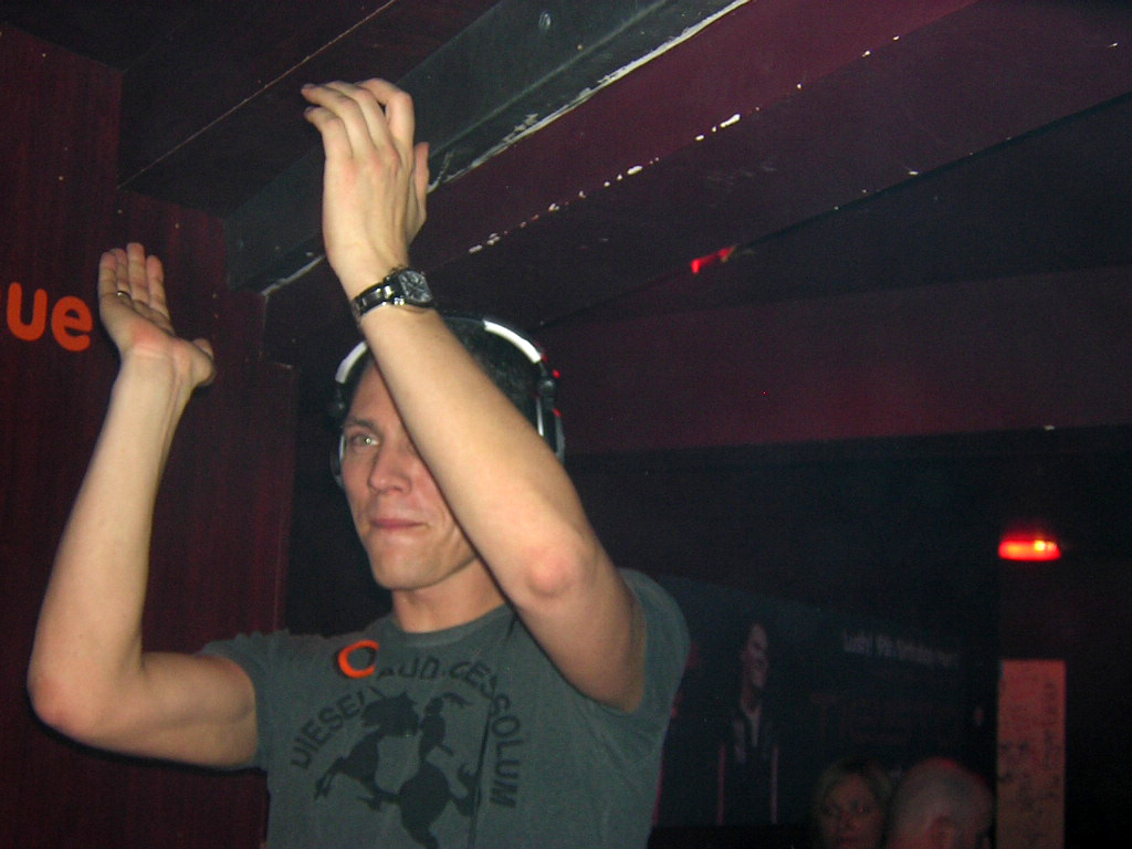 DJ Tiësto